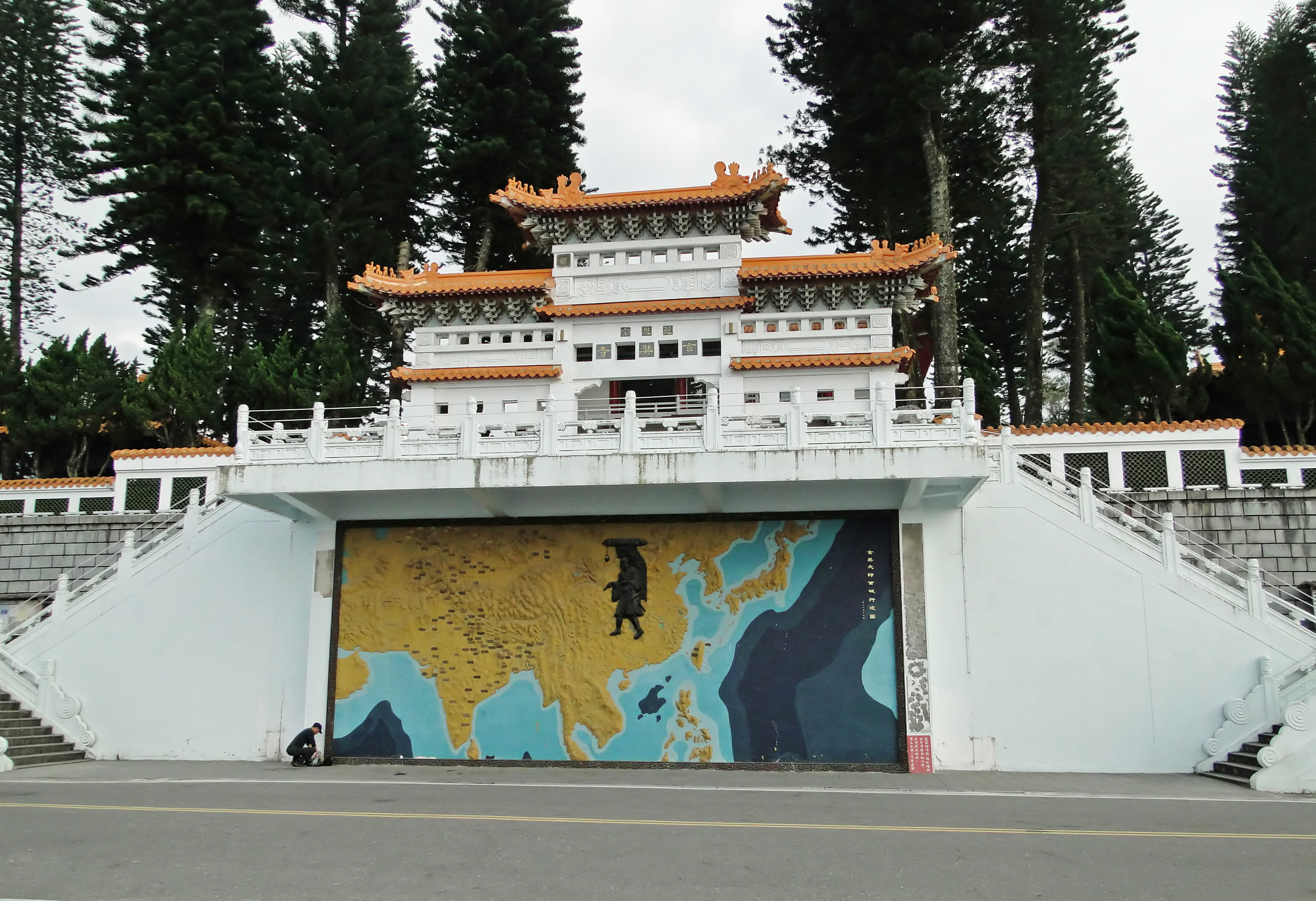 Entrance of Xuanzang Temple at Sun Moon Lake, Taiwan